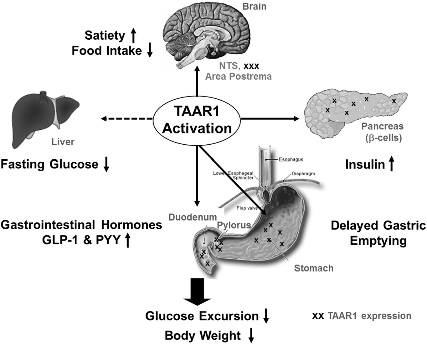 TAAR1 activation decreases food intake, reduces plasma glucose concentrations, and lowers body weight in part through insulin secretion and incretin-like effects in the GI tract (i.e., the release of gastrointestinal hormones). TAAR1 expression in the periphery is indicated with “x”.